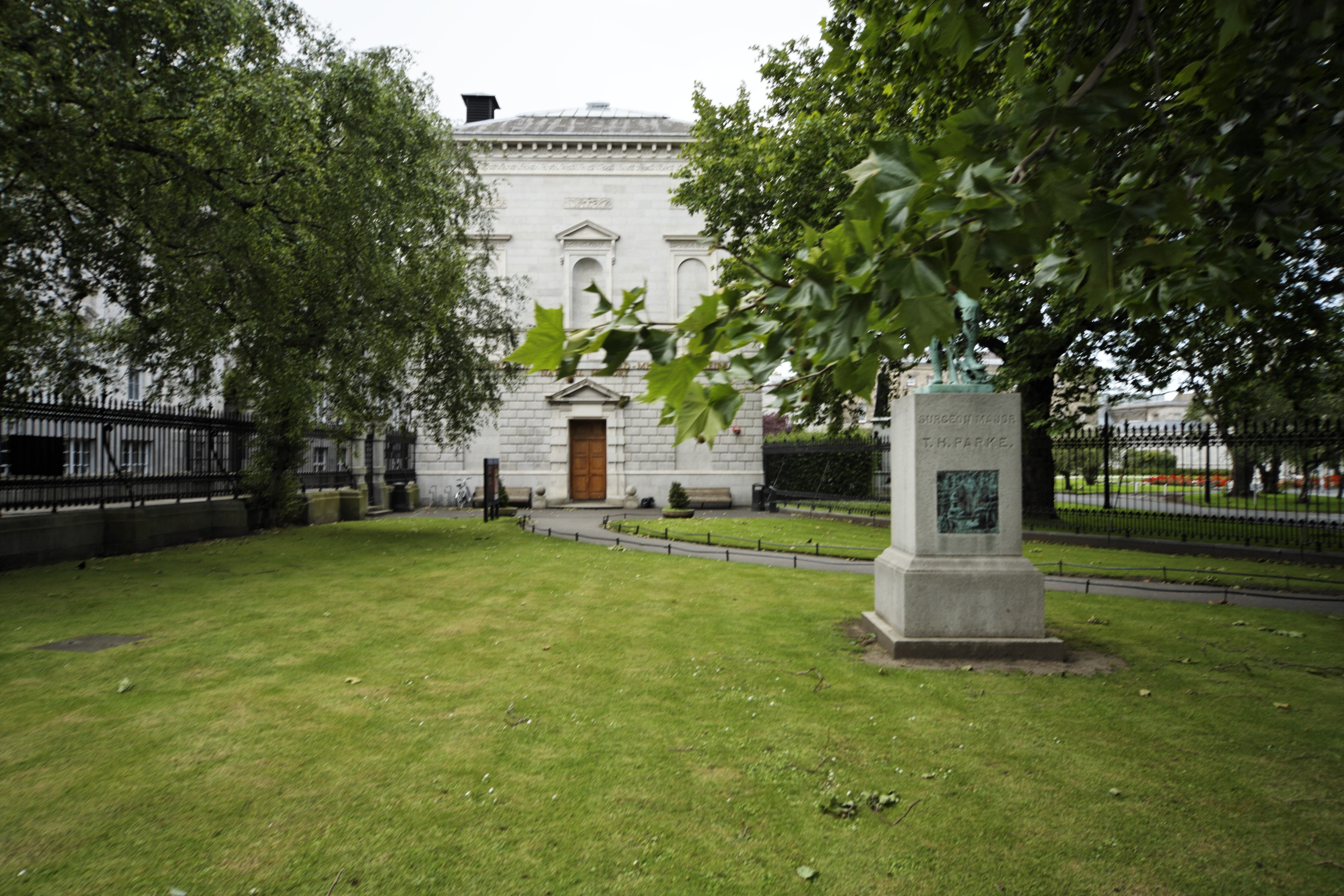 The Irish Natural History Museum, Merrion Street, Dublin. Designed by Frederick V. Clarendon. 1857